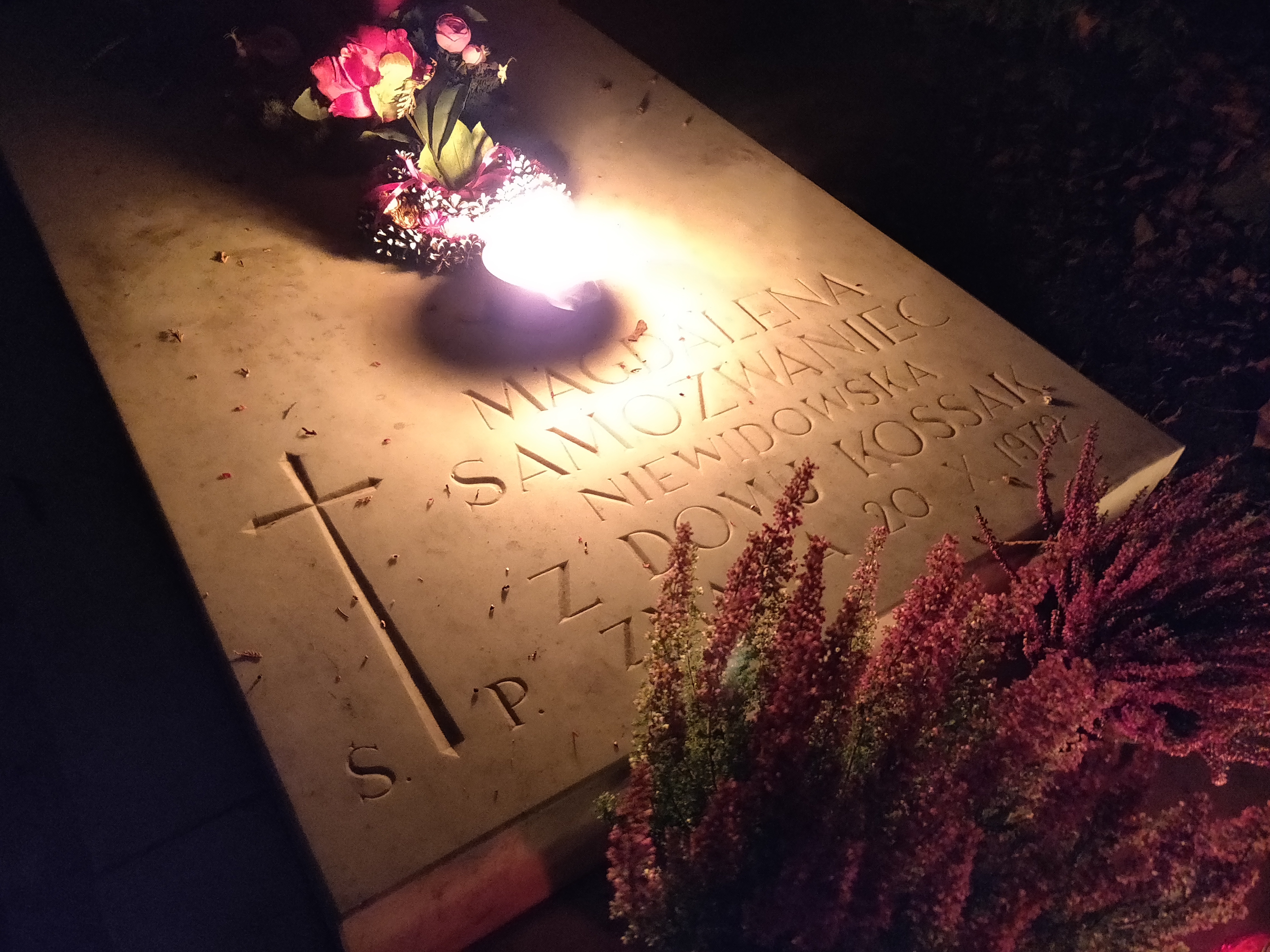 Magdalena Samozwaniec tombstone on Powązki Military Cemetery in Warsaw, plot A33 row 1 place 3.